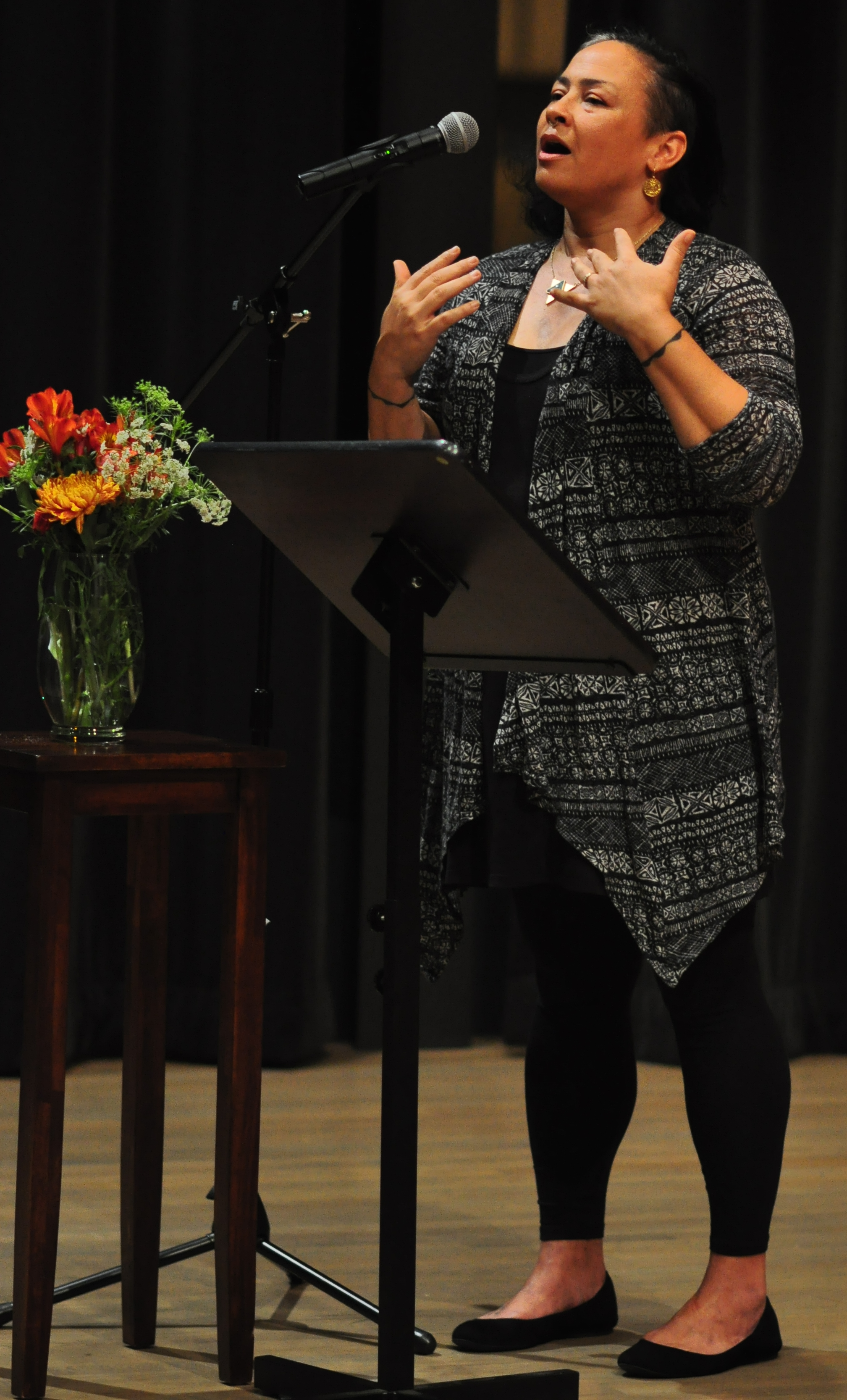 Documentarist Tracy Rector (Longhouse Media) At opening reception for "Tatau/Tattoo: Embodying Resistance", exhibit at Wing Luke Museum, Seattle, Washington.